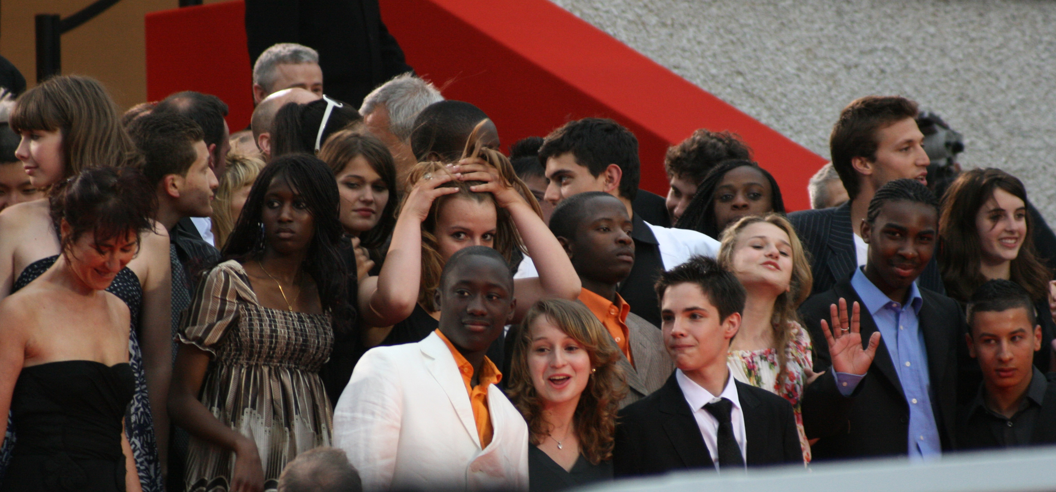 Actors of movie Entre les murs at Cannes Film Festival 2008.